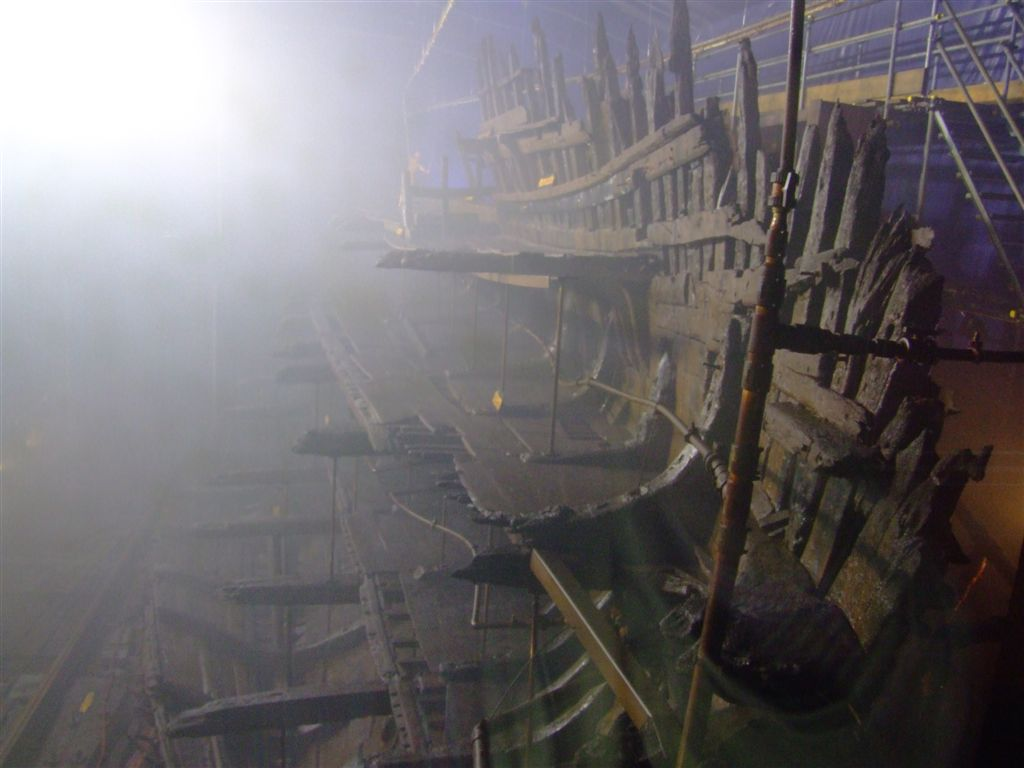 The preservation of this Tudor warship goes on. I was extremely fortunate in visiting when the sprays had been turned off and so was able to secure these fairly clear pictures. The sprays had been turned off so that the viewing windows could be cleaned. another boon to my photography!